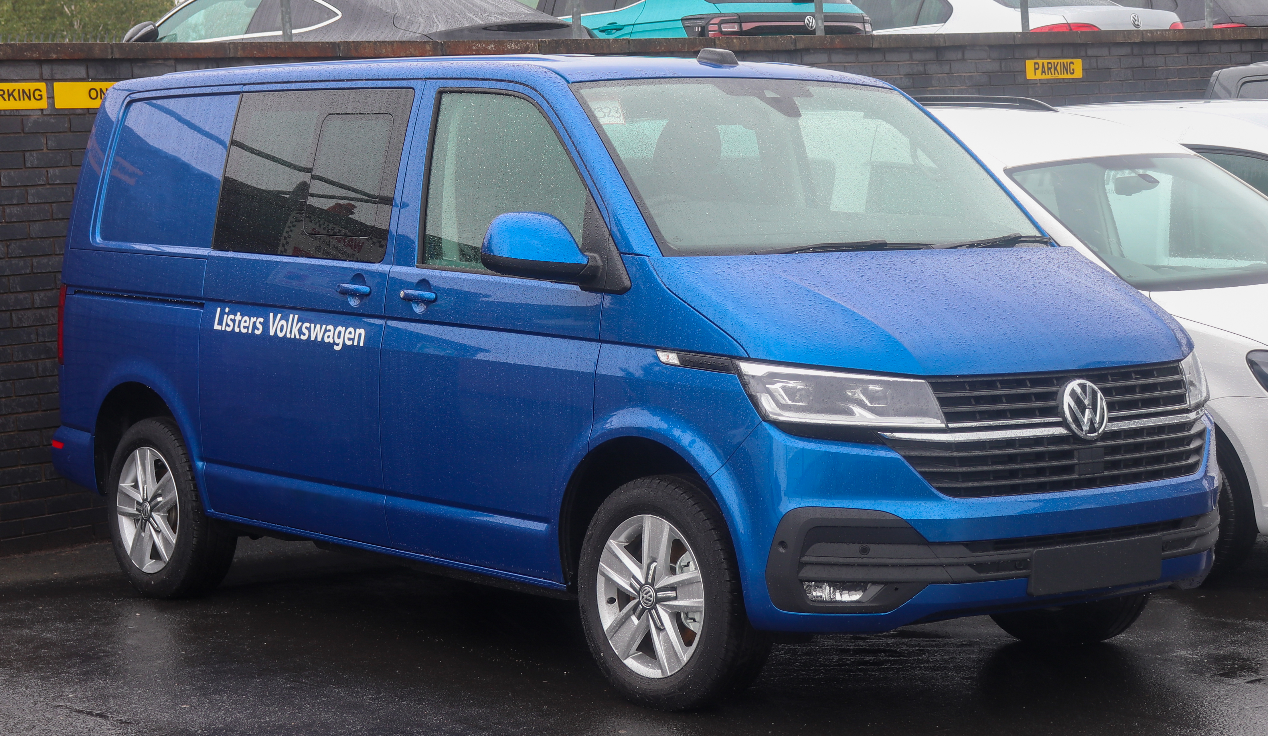 2020 Volkswagen Transporter 6.1 Highline Kombi TDi 2.0 Taken in Stratford-upon-Avon